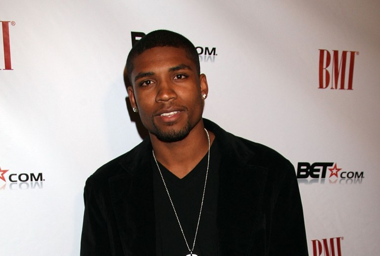 Jay Blaze pauses for a photo at the pre-BET Awards reception June 25